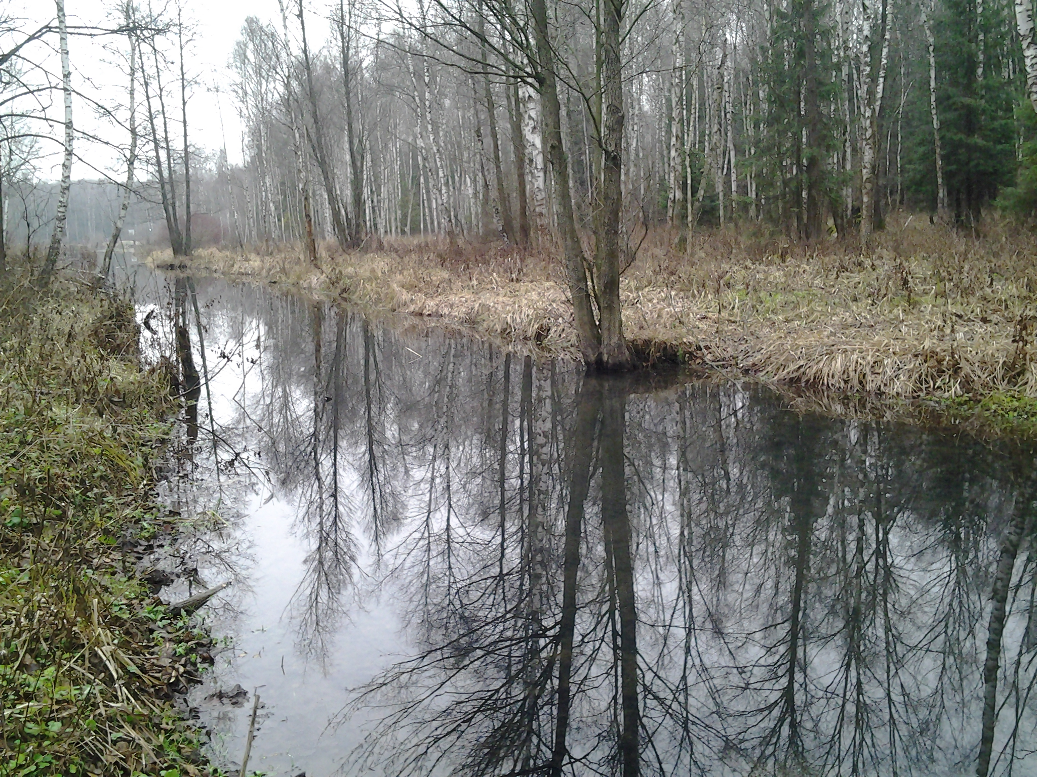 Los river before pond